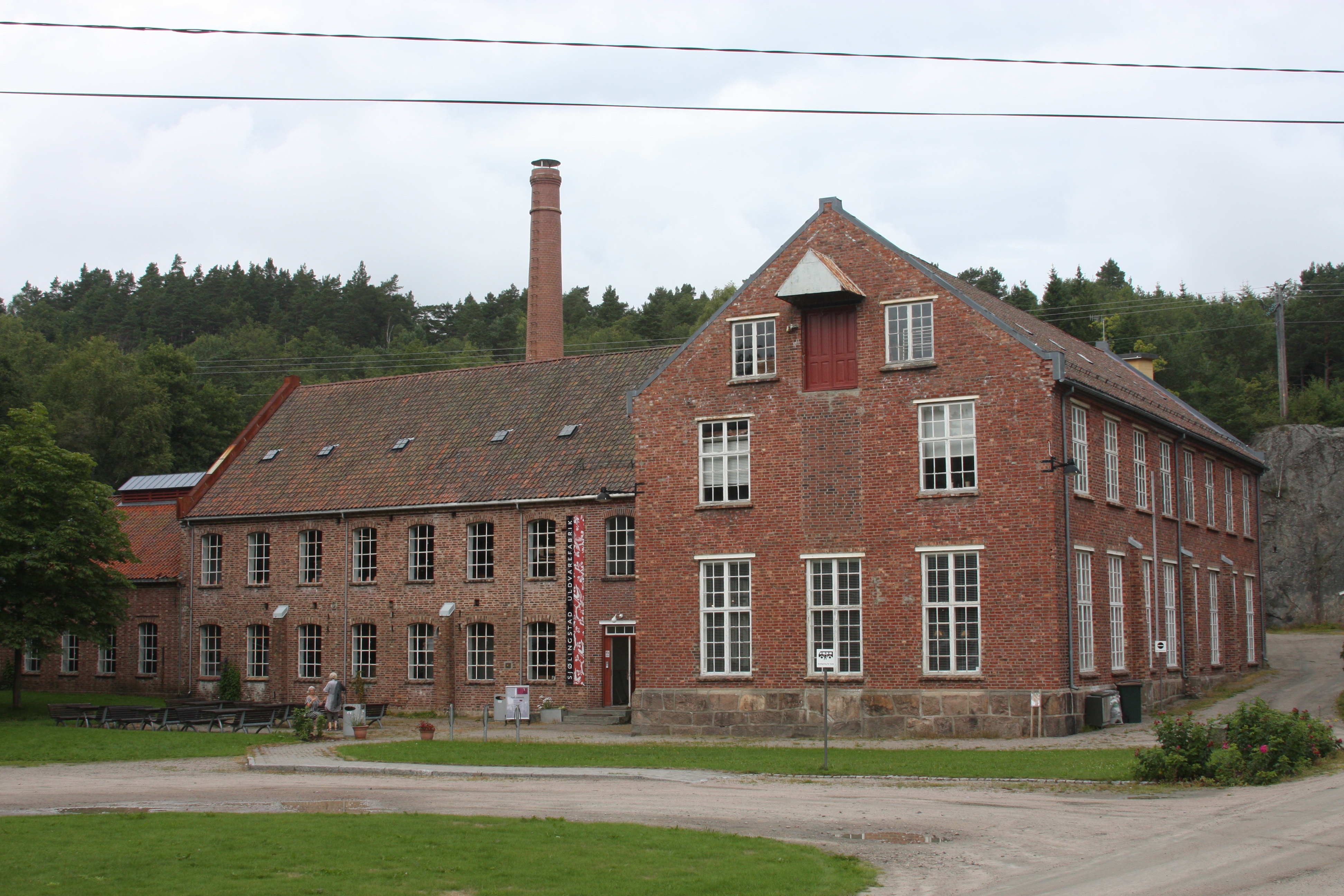 Sjöllingstad Ullvarefabrik (wool mill and factory), Mandal, Norway.